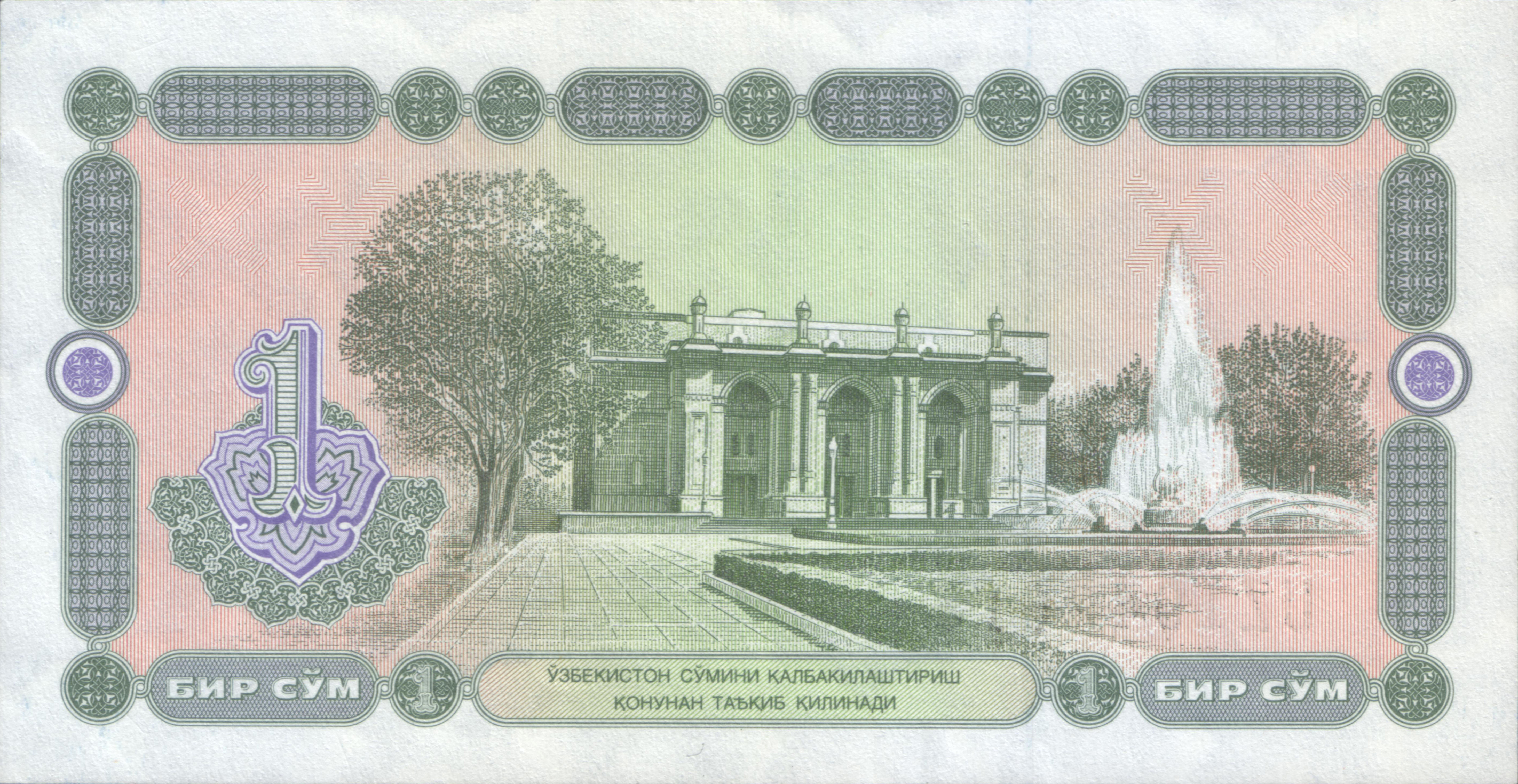 1 som of Uzbekistan (1994)